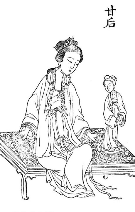 Lady Gan